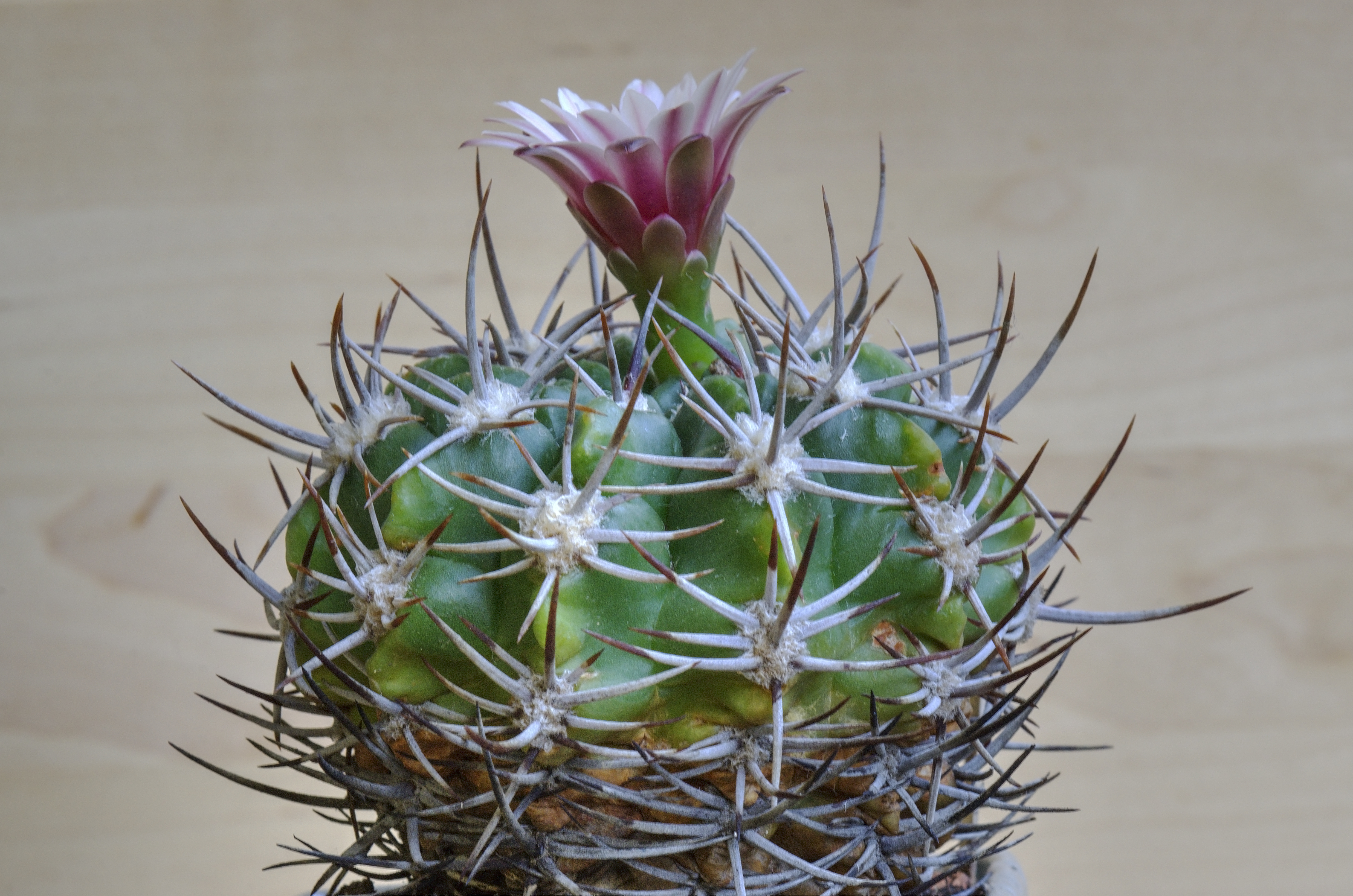 Cactus Gymnocalycium Mostii with flower